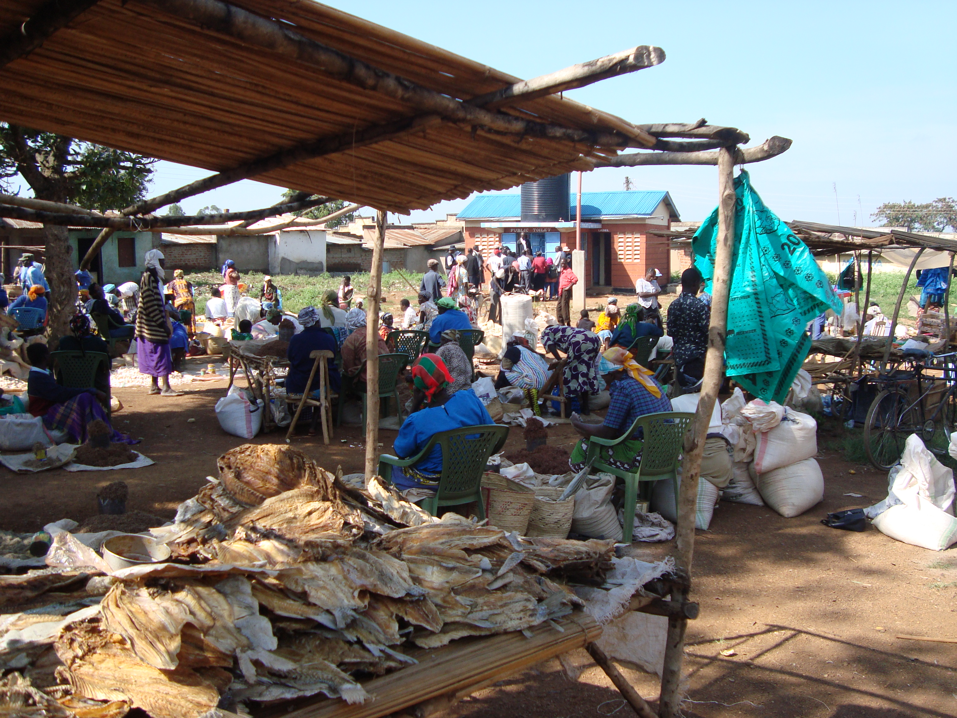 Name of Photographer: Laura Kraft (09/2010) In front: Women selling dried fish, vegetables, fruits and different types of grains during market day in Ugunja. Background: Public Ecosan toilet visited by the workshop participants